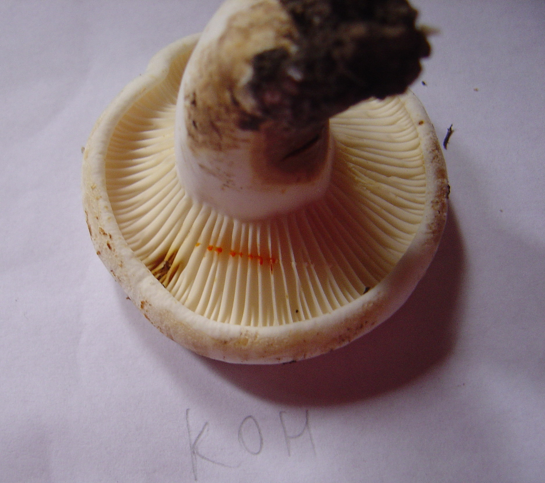 Lactarius bertillonii (Neuhoff ex Z. Schaef.) Bon Image location: Basin of Vuyayany River, Yuganskij Reserve, Khanty-Mansi Autonomous Okrug—Yugra, Russia under the Pinus sylvestris coll. number BAS-07091011 Recognized by sight. Based on chemical features: The orange-yellow reaction of the latex in contact with KOH.